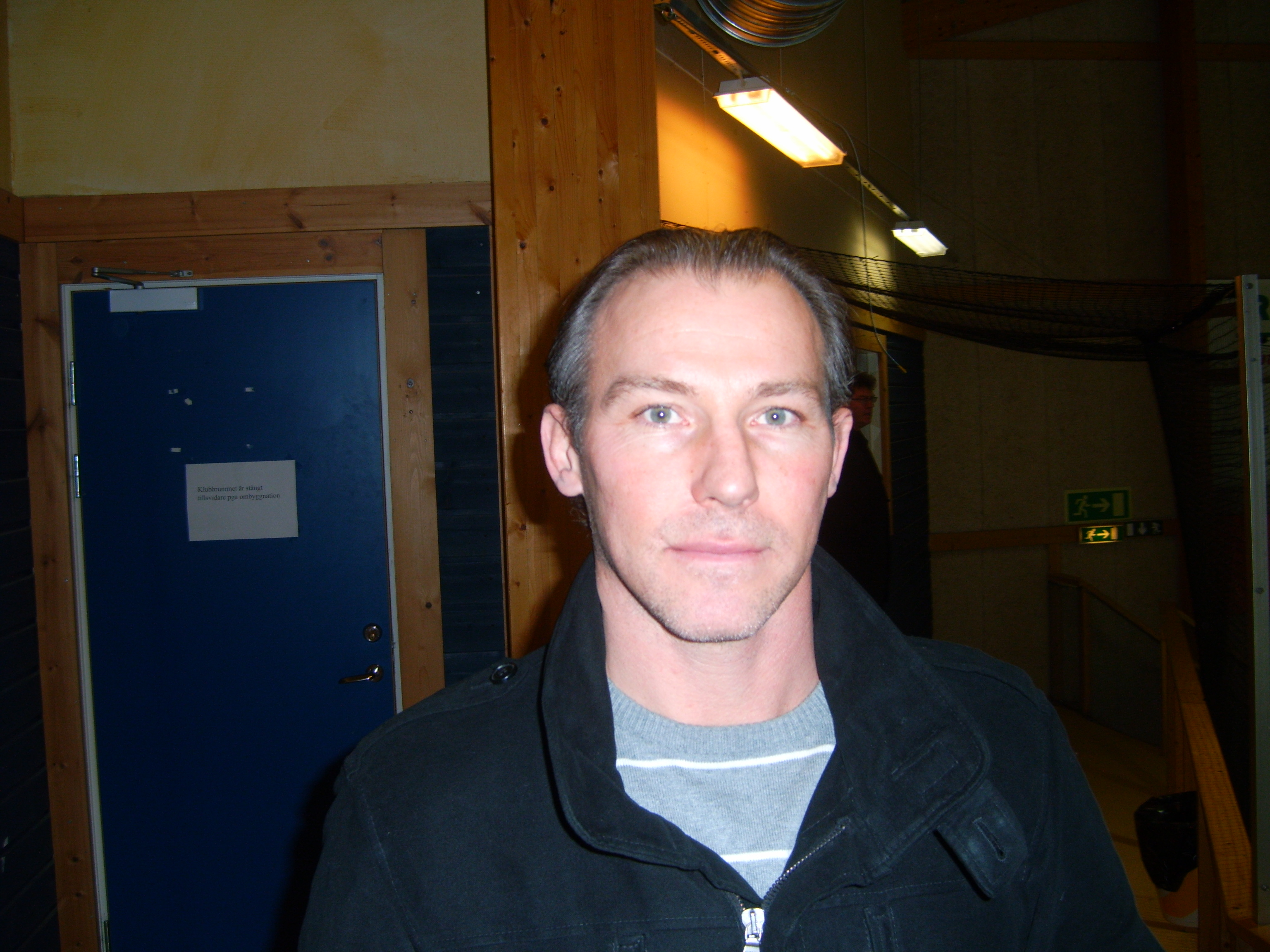 Former Swedish hockeyplayer Rickard Franzén from AIK Ishockey